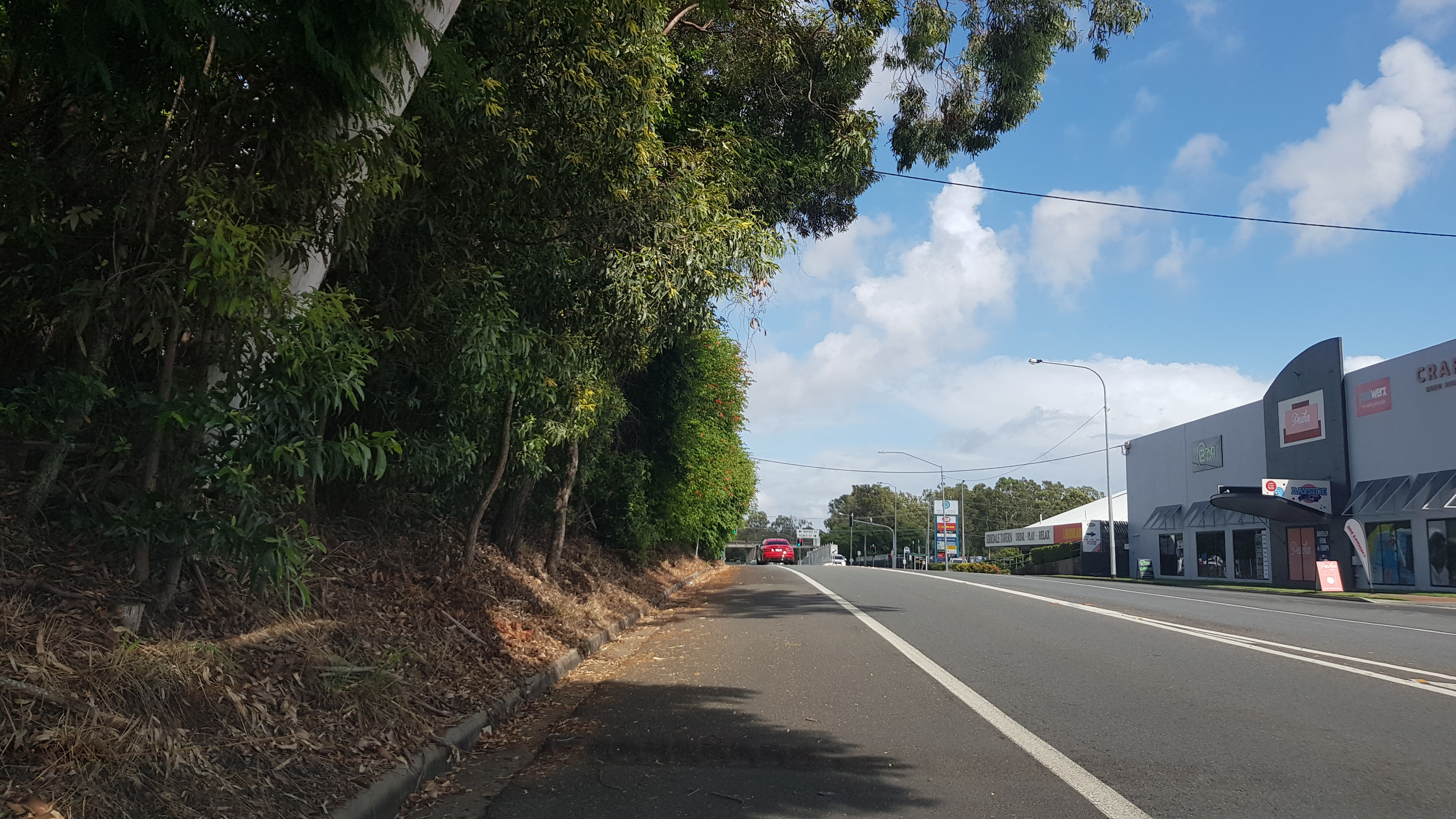 Birkdale Rd at Birkdale, Redland City, Queensland, facing west